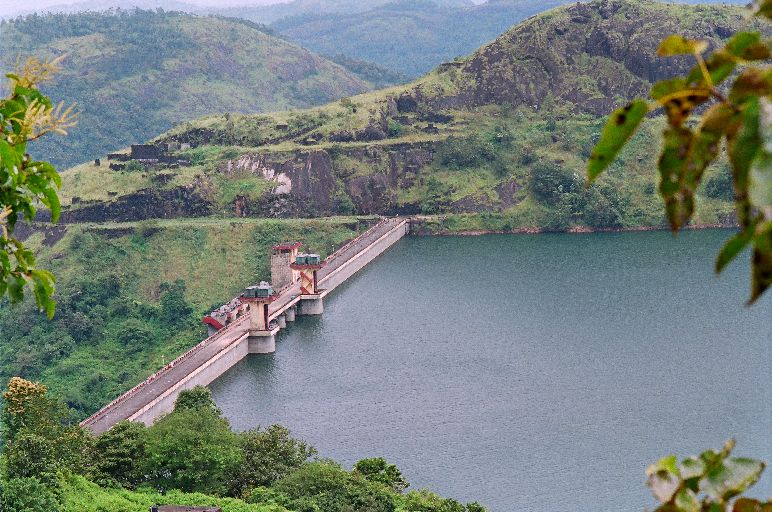 Cheruthony Dam